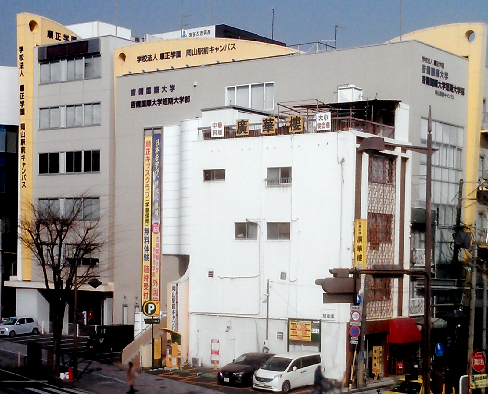 Kibi International University Campas of Front at Okayama-Station